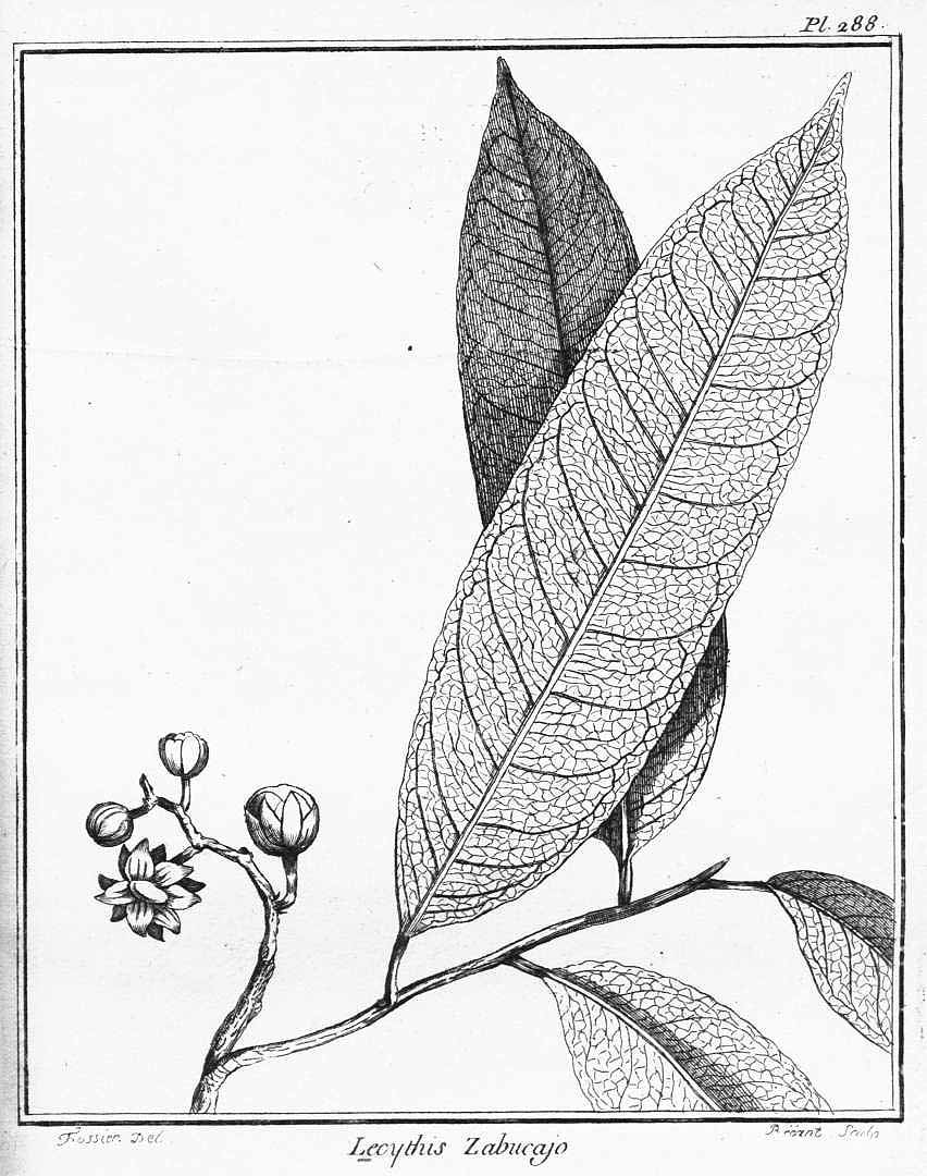 Lecythis zabucajo Aublet - Leaves and flowers - Aublet, F. , Histoire des plantes de la Guiane Françoise, vol. 4: t. 288 (1775)